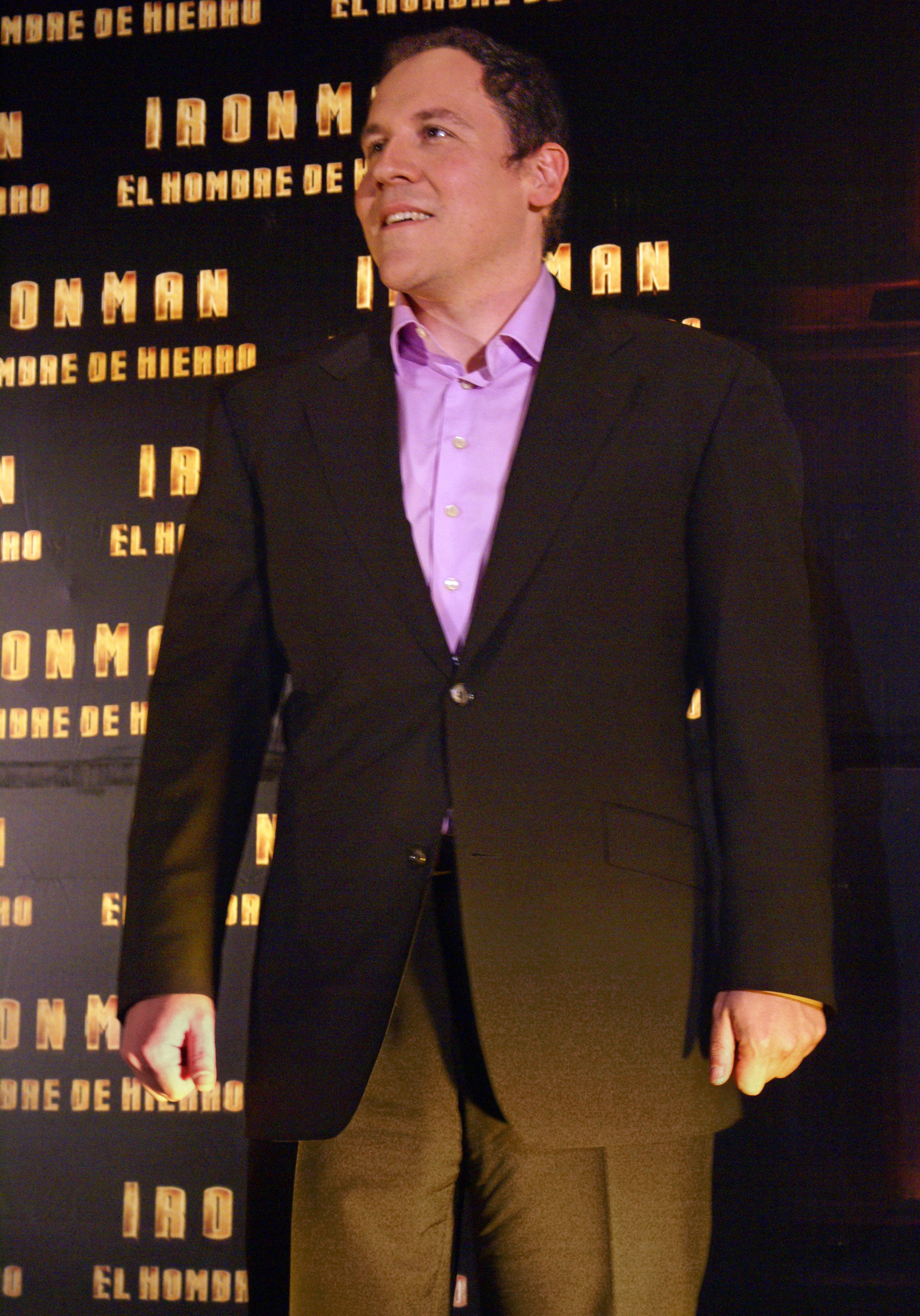 Actor and film director Jon Favreau promoting the film "Iron Man" in Mexico City.